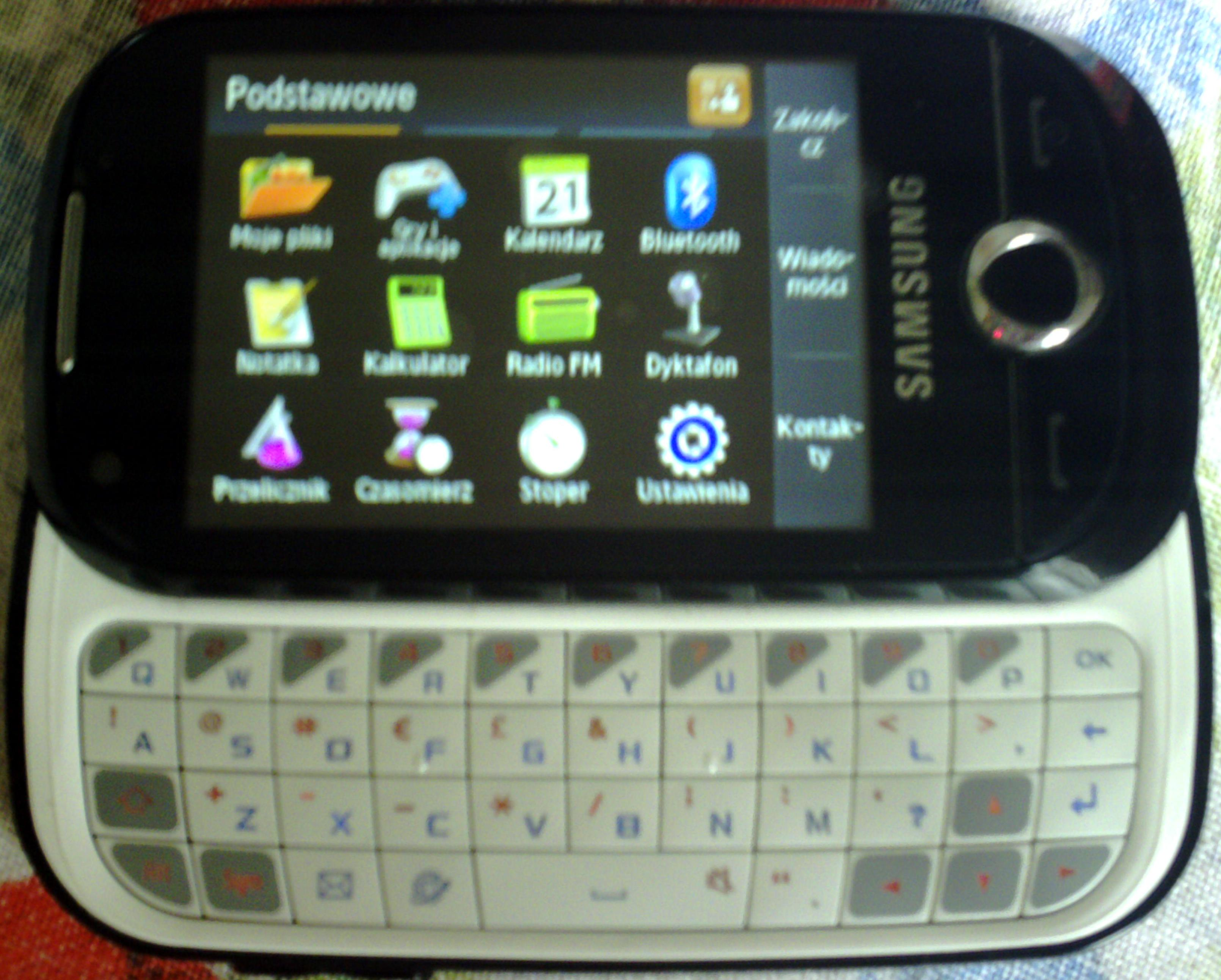 A front of a mobile phone Samsung GT-B5310 Corby PRO with keyboard.